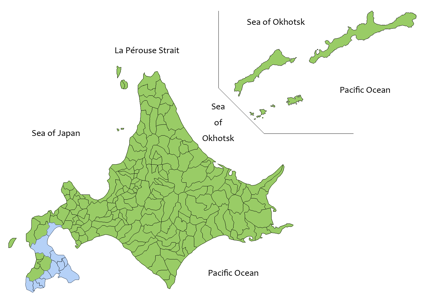 Map of Oshima subprefecture in English